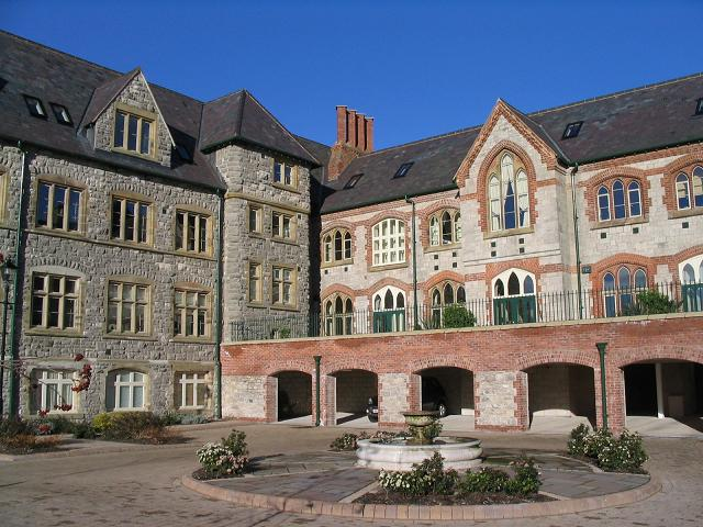 St. Clare's Court, Pentasaph Pentasaph was a large Roman Catholic complex of buildings, which included a Franciscan Friary. The internet also makes reference to a convent here. These particular buildings are now luxury apartments - The friary was featured in a BBC programme called 'Monastery'.